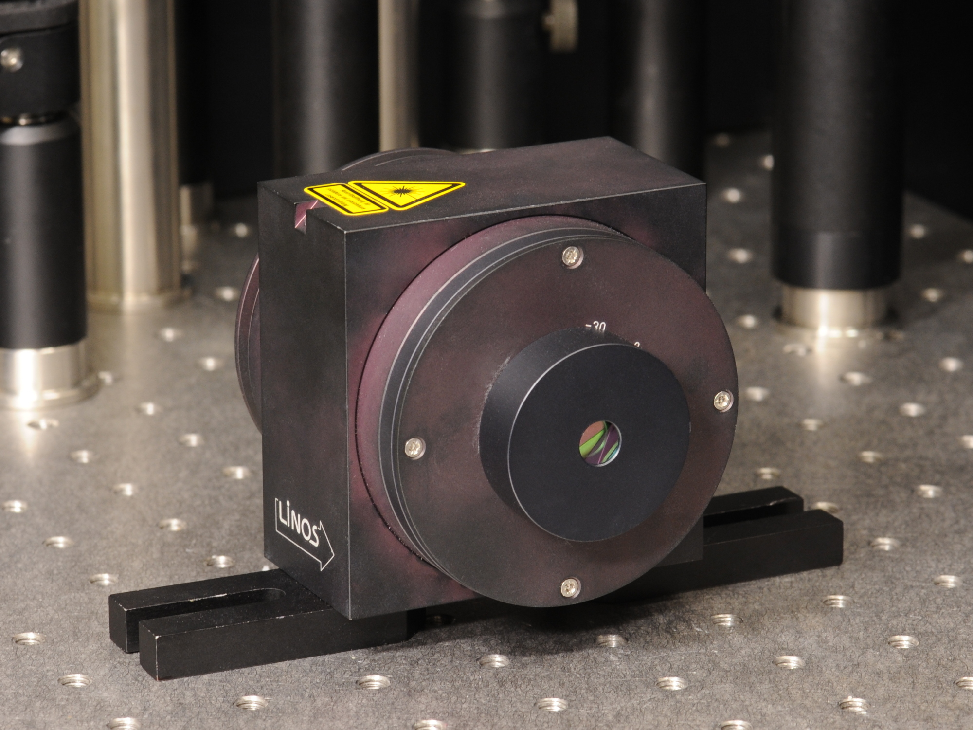 Photograph of an optical optical isolator from linos. The isolator has a strong static magnetic field along the axis of light propagation. This breaks the usual space-time symmetry and enables polarization rotations that allow light to be transmitted in one direction, but blocked in the other one. Therefore it acts as an isolator or optical diode.